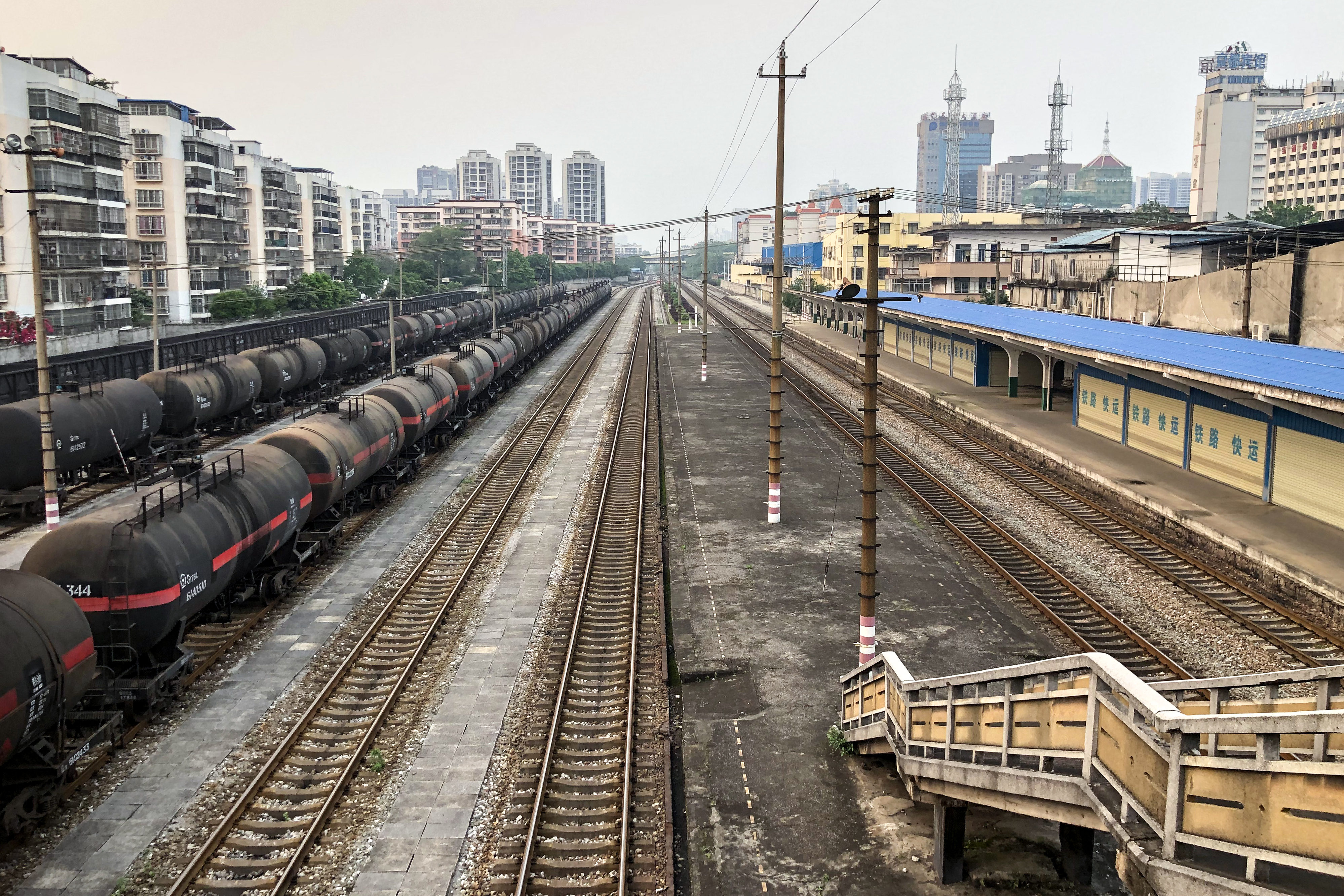 No more passenger services here...